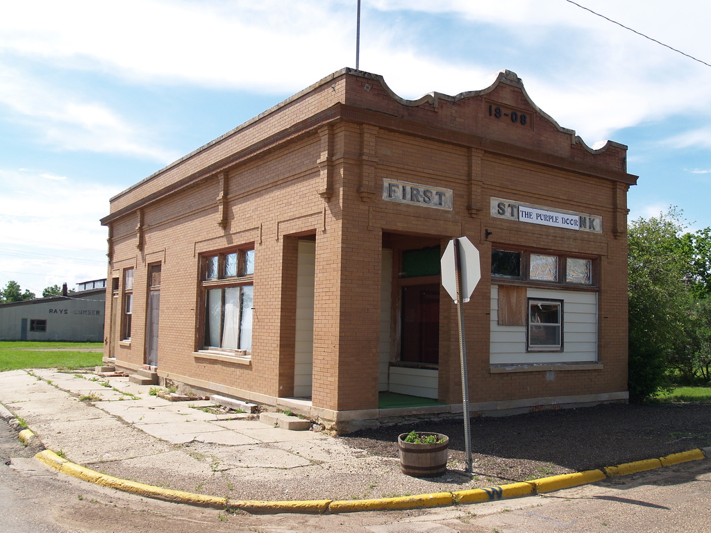 Reeder, North Dakota. From .